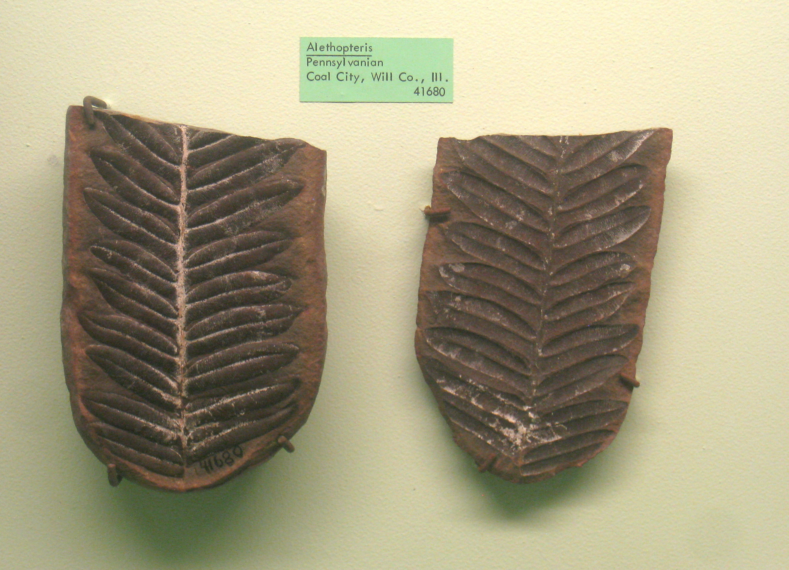 Alethopteris. Exhibit Museum of Natural History, University of Michigan, 1109 Geddes Avenue, Ann Arbor, Michigan, USA.